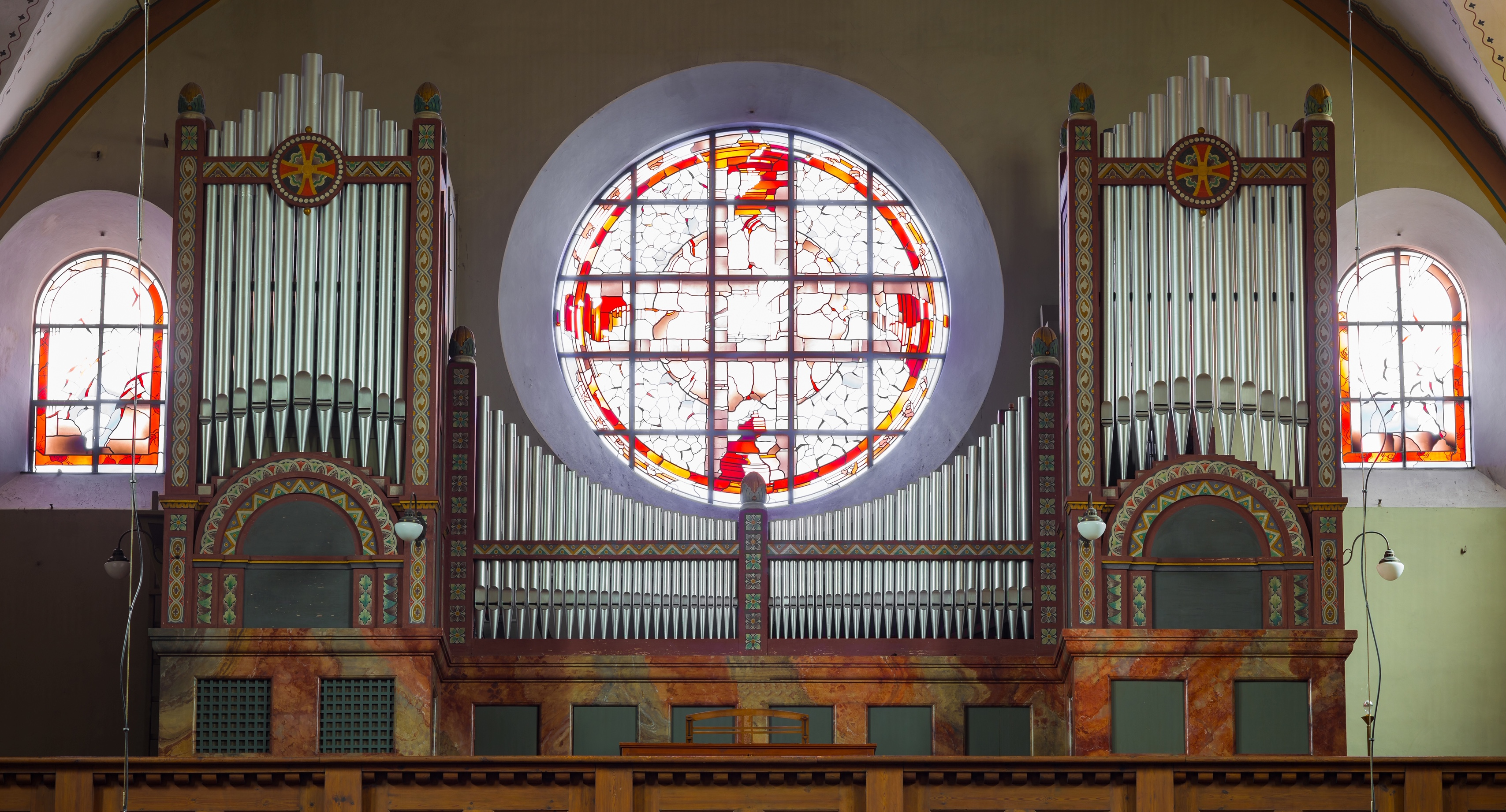 The Koulen organ in the catholic church St. Sebastian in Ausburg, Germany.